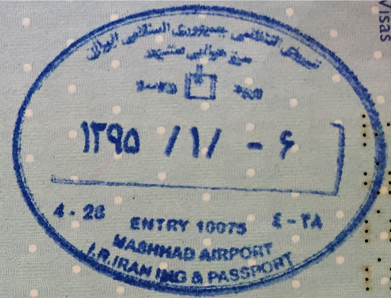 Entry stamp to Iran at Mashhad Airport in March 2015 in a Slovak passport.